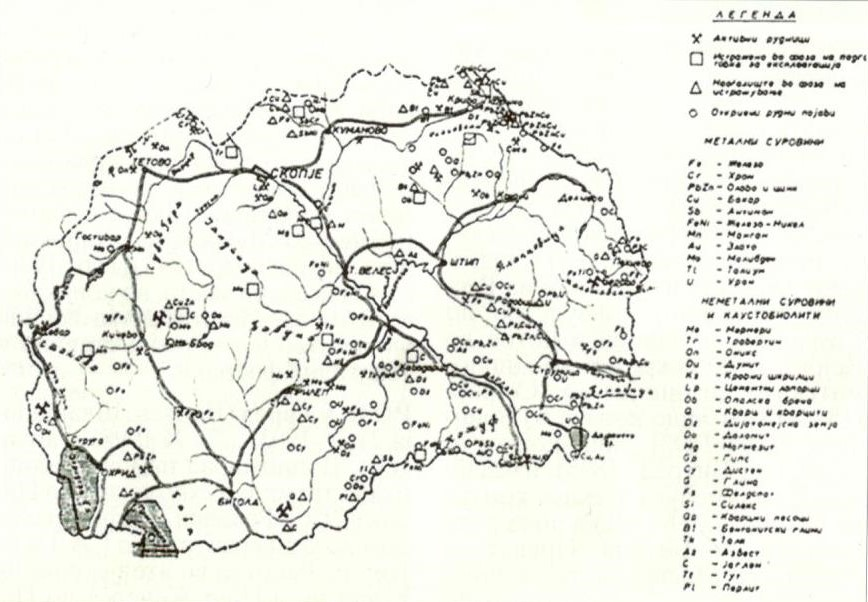 Map of mineral ore deposits in Macedonia